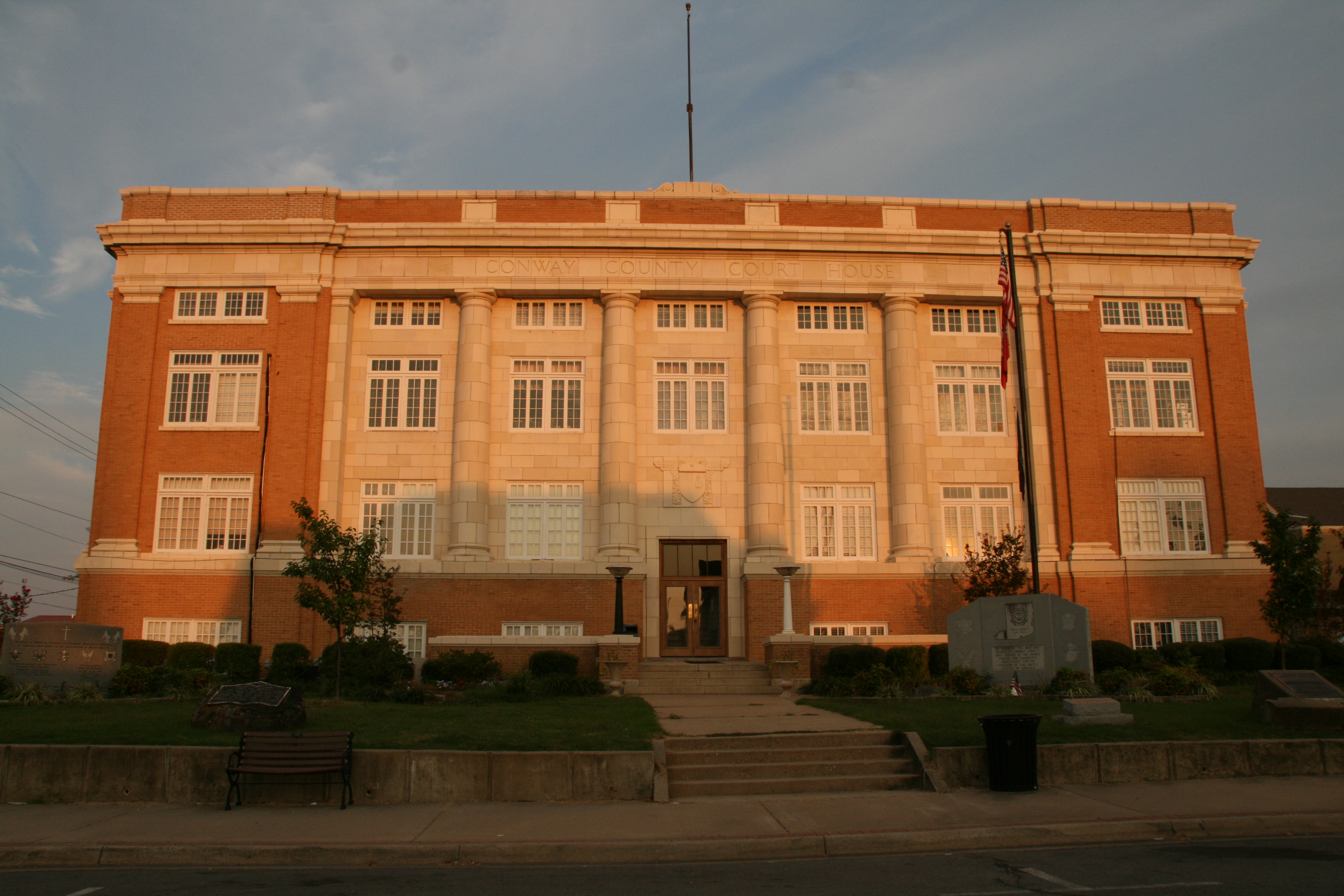 Conway County Courthouse, Moose St. at Church St. Morrilton